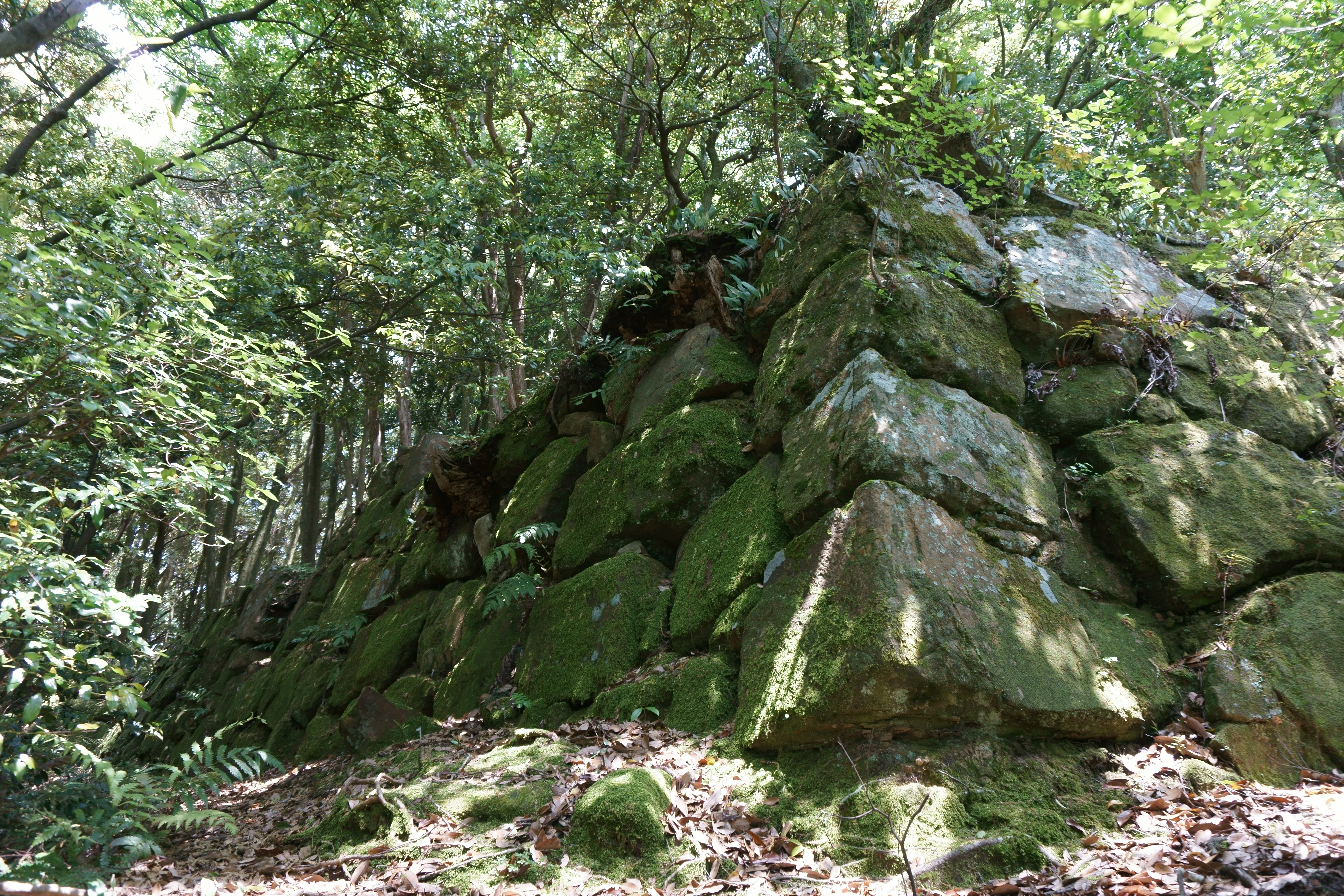 A stone wall of third section's south tower of Shishiga-jo Castle, in Kyūragi, Karatsu city, Saga prefecture.